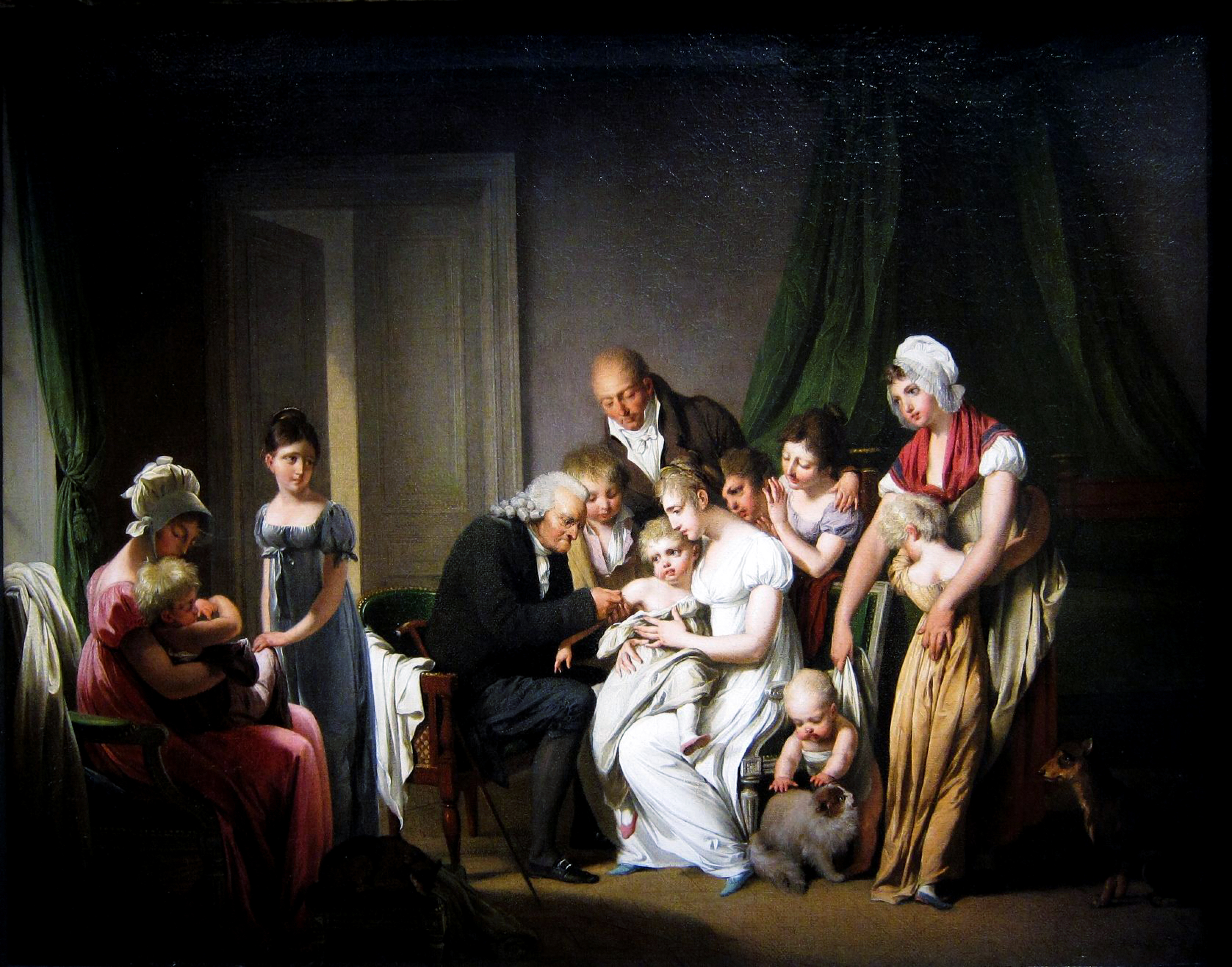 La vaccination. Inoculation against smallpox in Paris in 1807 as shown in a painting by Louis-Léopold Boilly at The Wellcome Library, London.